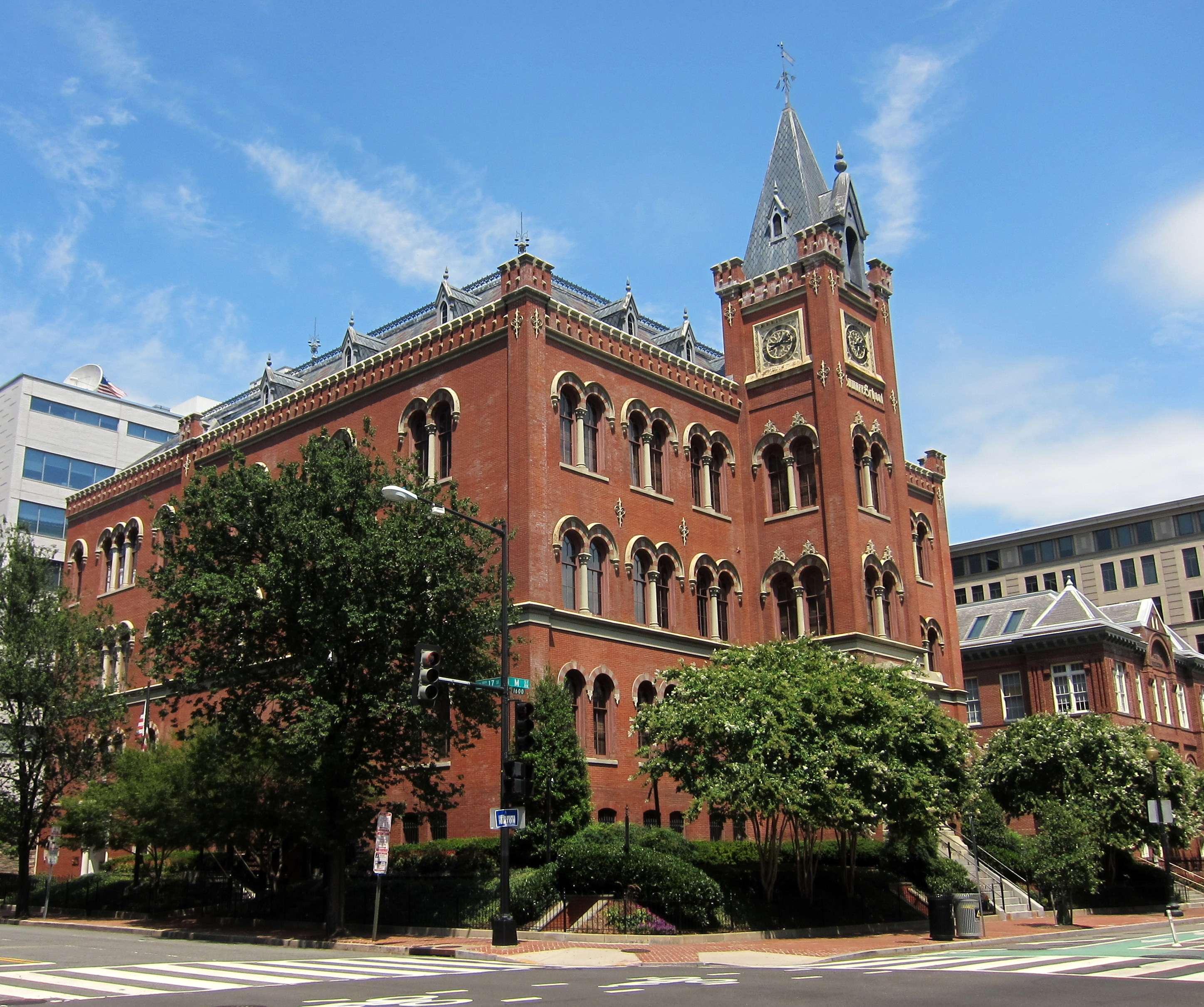 The Charles Sumner School in Washington, D.C.